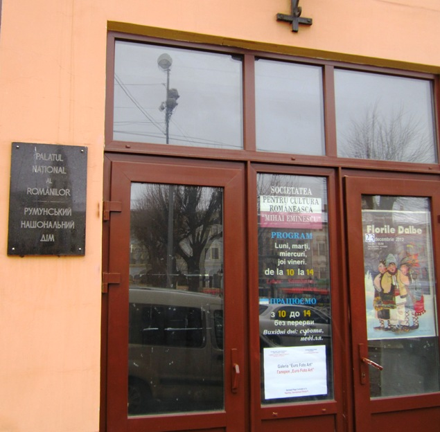 National Romanian Palace in Chernivtsi, Ukraine (January 2013).